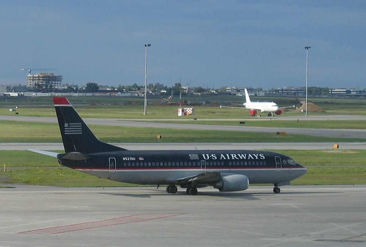 Boeing 737-3B7 of US Airways 6 July 2006, Montreal, Quebec, Canada Photo: SvdMolen